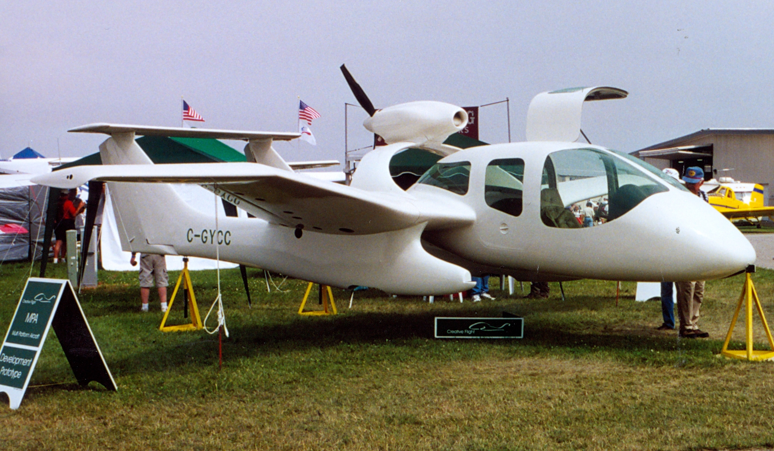 Aerocat